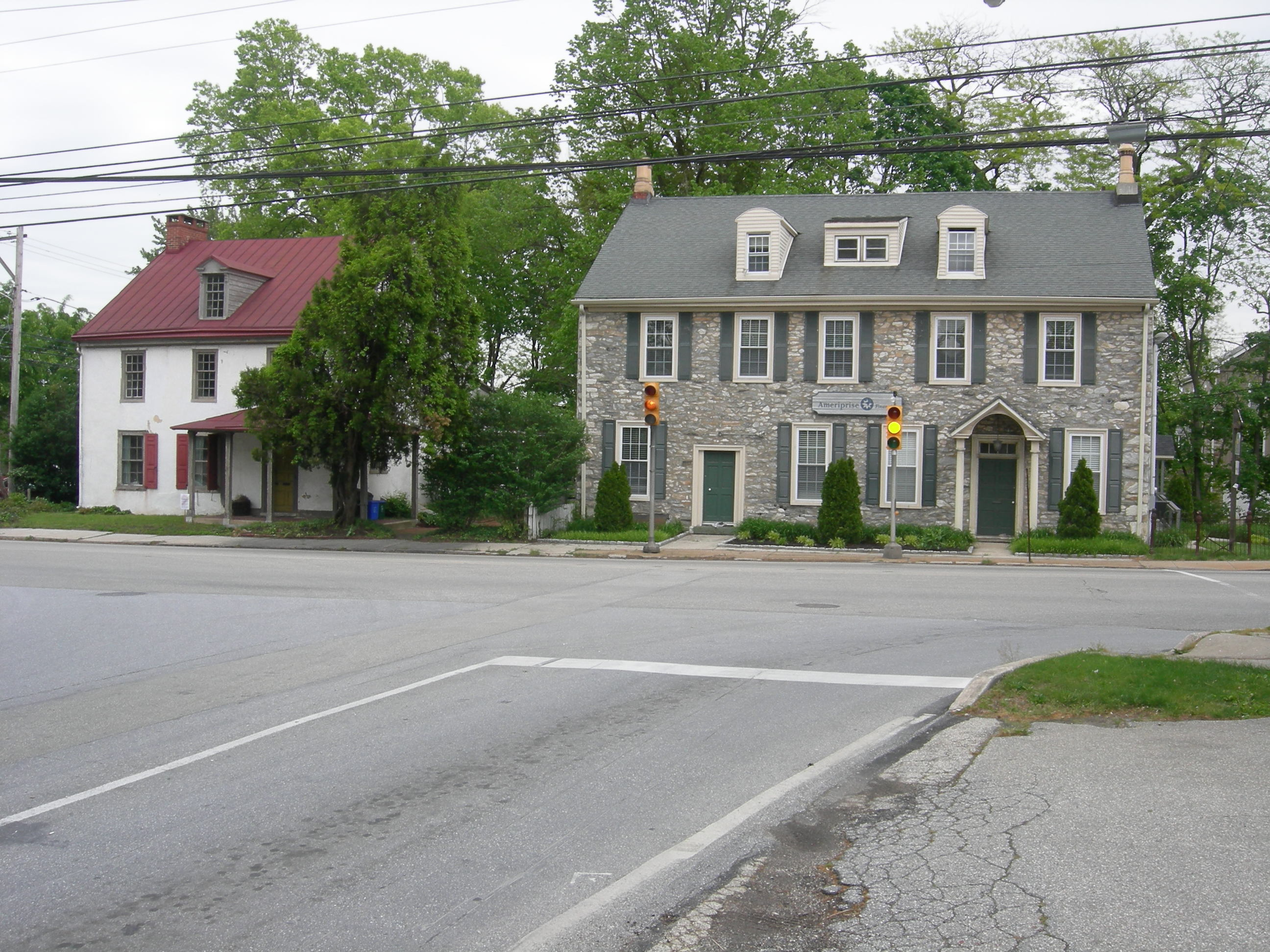 Northbound Butler Pike at Germantown Pike in Plymouth Meeting.Hovenden House and Plymouth Meeting Country Store & Post Office, Germantown & Butler Pikes, Plymouth Meeting, Whitemarsh Township, Montgomery County, Pennsylvania. The Maulsby-Corson-Hovenden House (left), was begun in 1767, and was a station on the Underground Railroad. The Plymouth Meeting Country Store & Post Office was built c.1827.